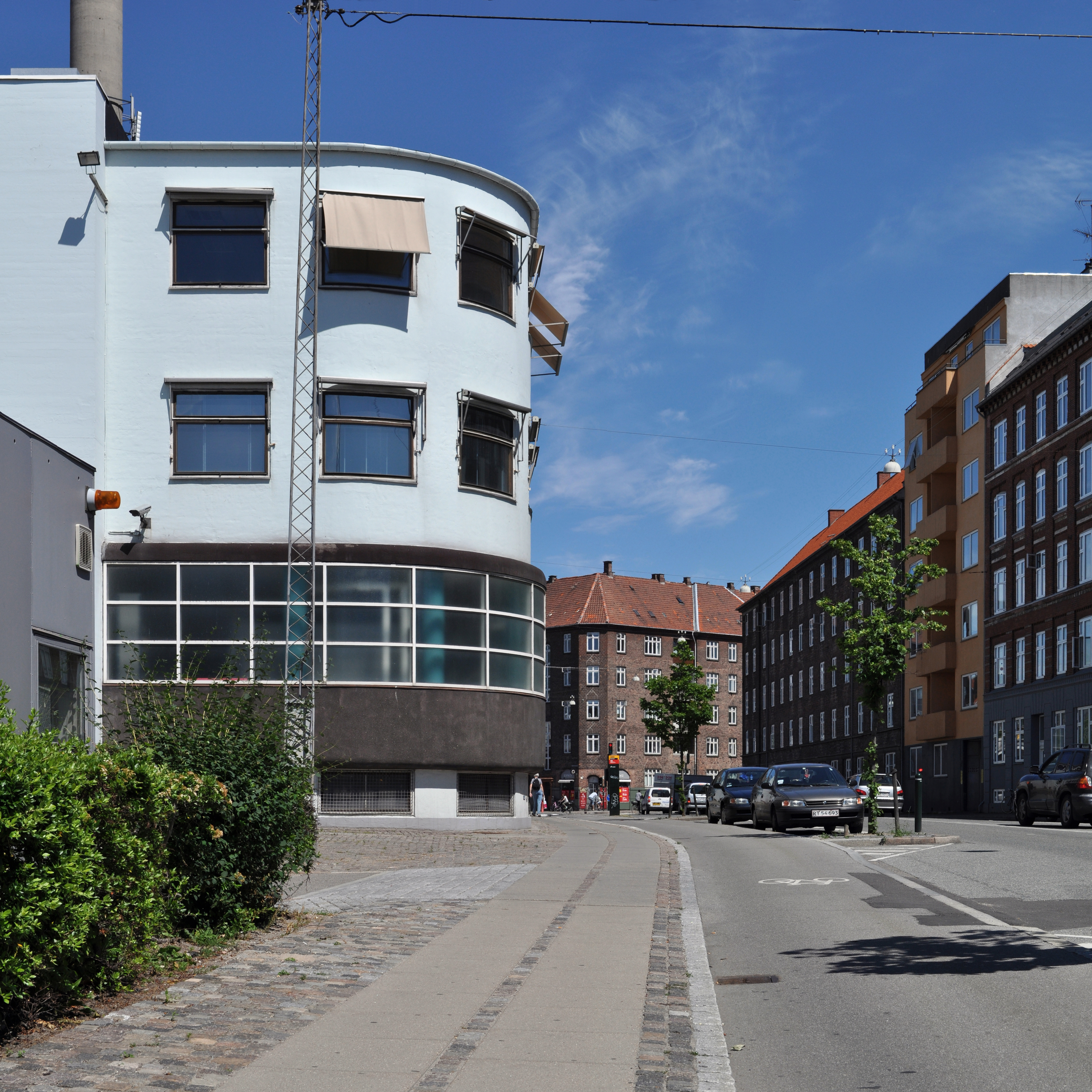 NOVO laboratories, copenhagen, denmark, 1934-1935. architect: arne jacobsen 1902-1971.